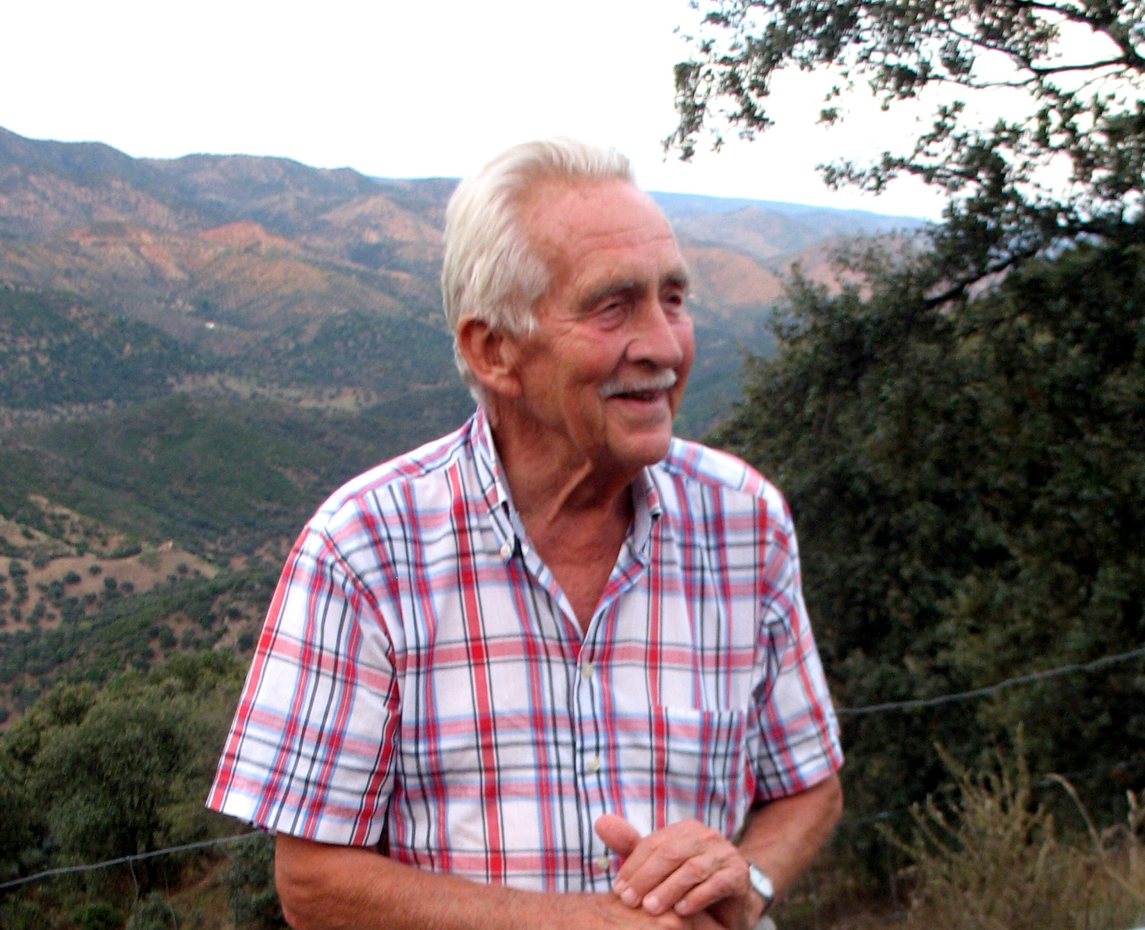 Robert H. Wagner (1927-2018), Dutch paleobotanist (born in Indonesia). Professor at the University of Sheffield. Founder and honorary director of the Paleobotanical Center of the Royal Botanical Garden of Córdoba, Spain. October 2013.